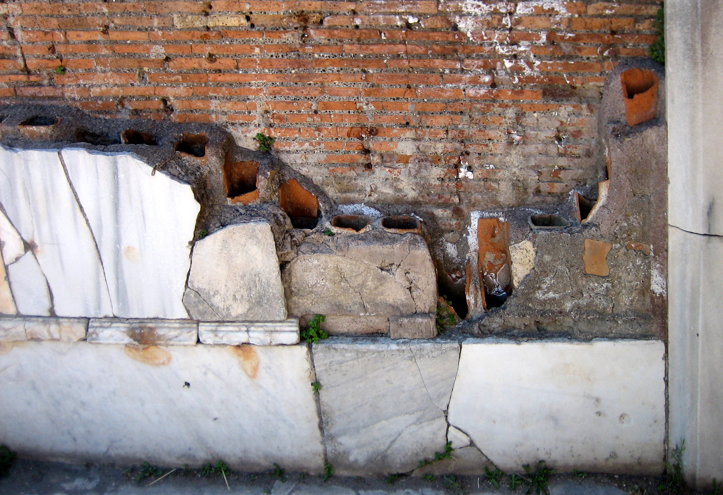 Hypocaust heating at the Terme del foro in Ostia Antica. Wall tubuli.